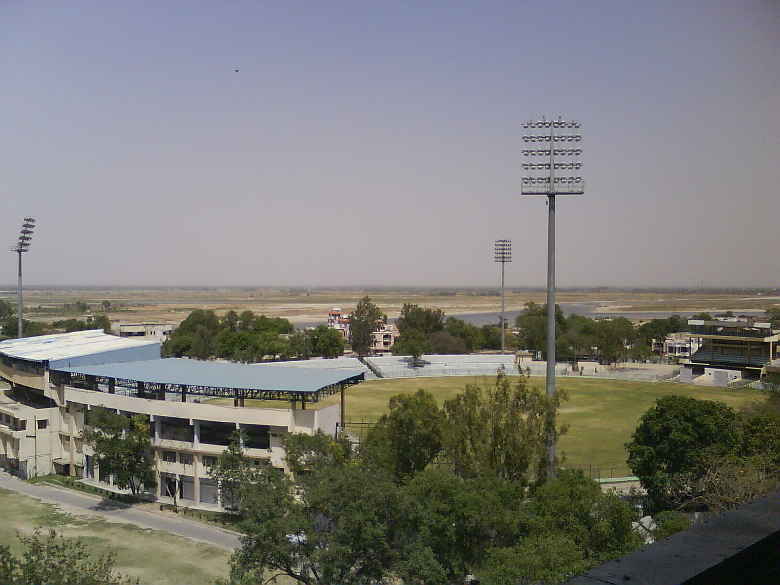 Green Park Stadium, Kanpur, Uttar Pradesh. In background river Ganges can be seen.